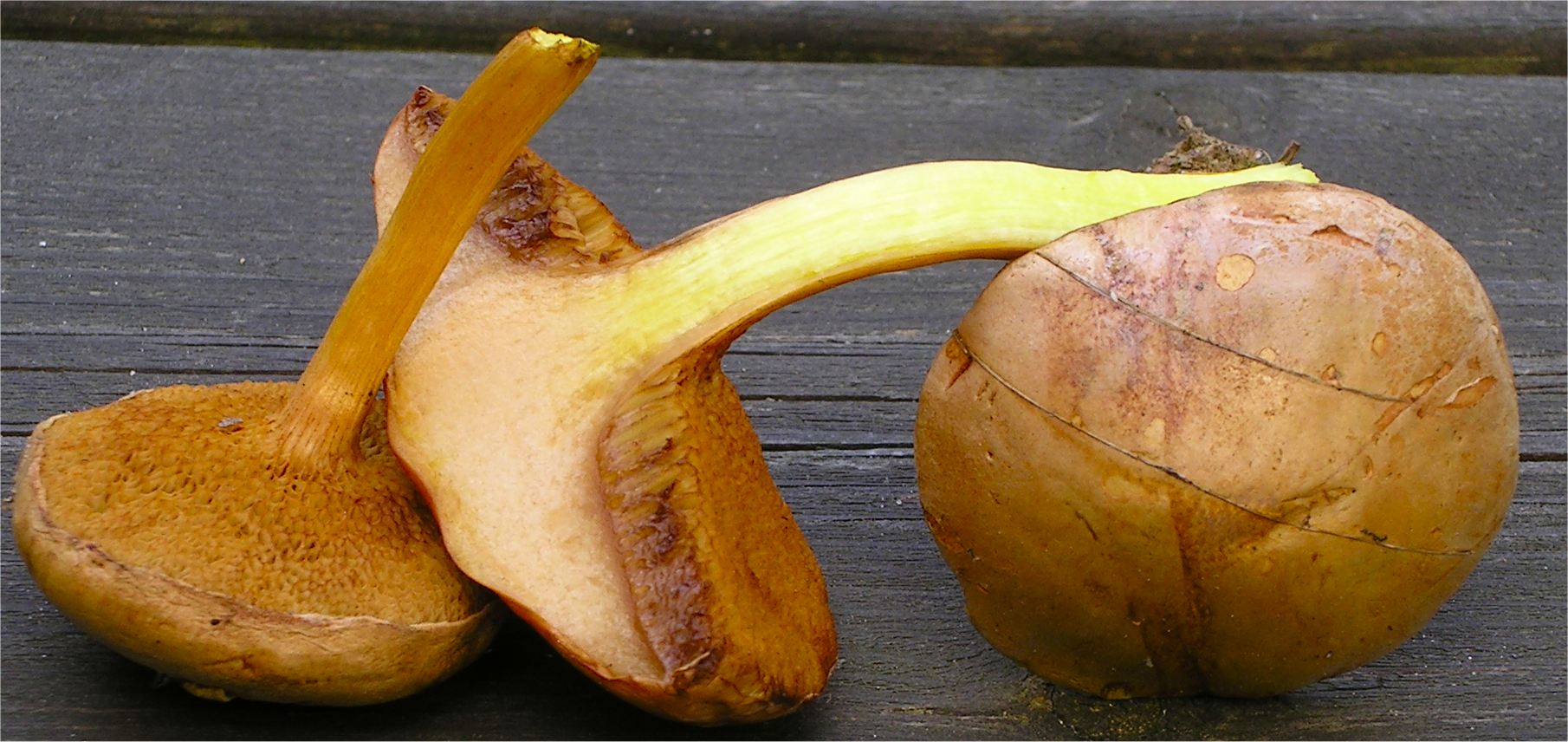 Chalciporus piperatus (Bull.) Bataille Location: Hörnefors, Västerbotten, Sweden For more information about this, see the observation page at Mushroom Observer.